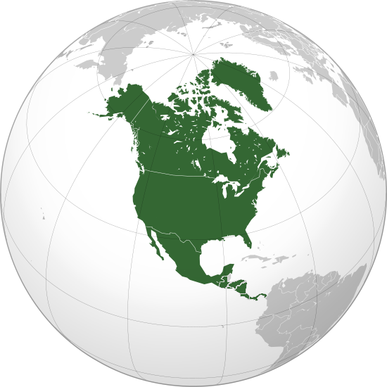 Map of countries in North America with Burger King locations (orthographic projection)